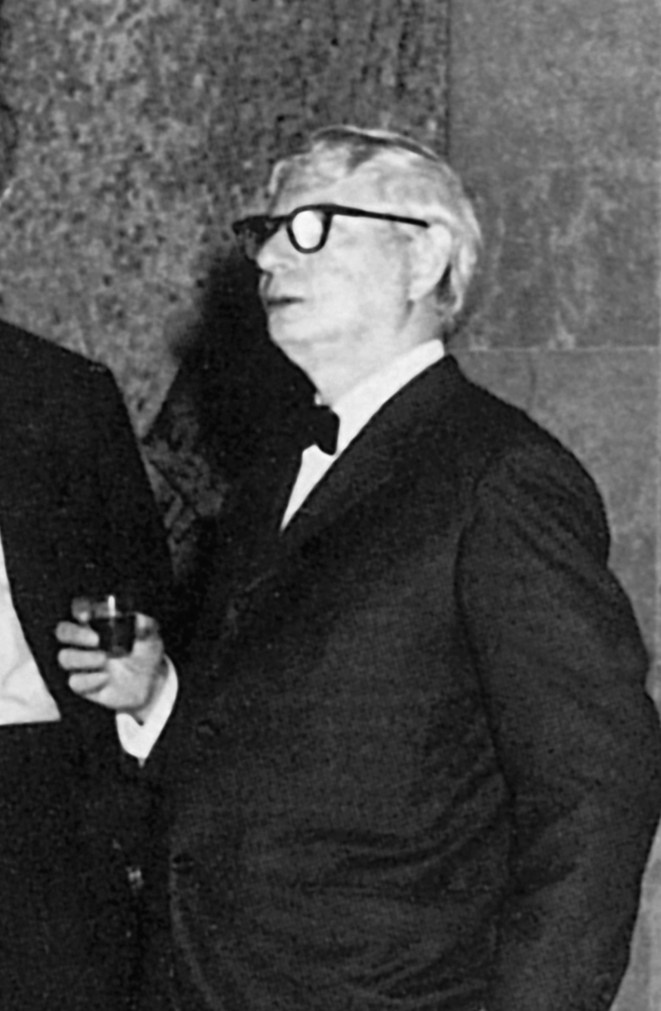 Louis Kahn